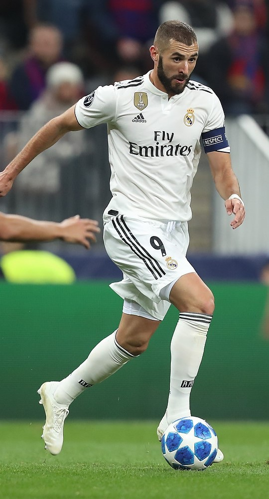 Karim Benzema